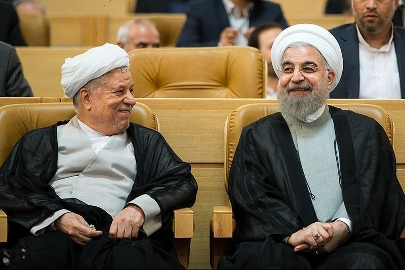 Iran's Ex-President Akbar Hashemi Rafsanjani Dies - TEHRAN (Tasnim) - Ex-Iranian president Akbar Hashemi Rafsanjani dies in hospital after suffering a heart attack.